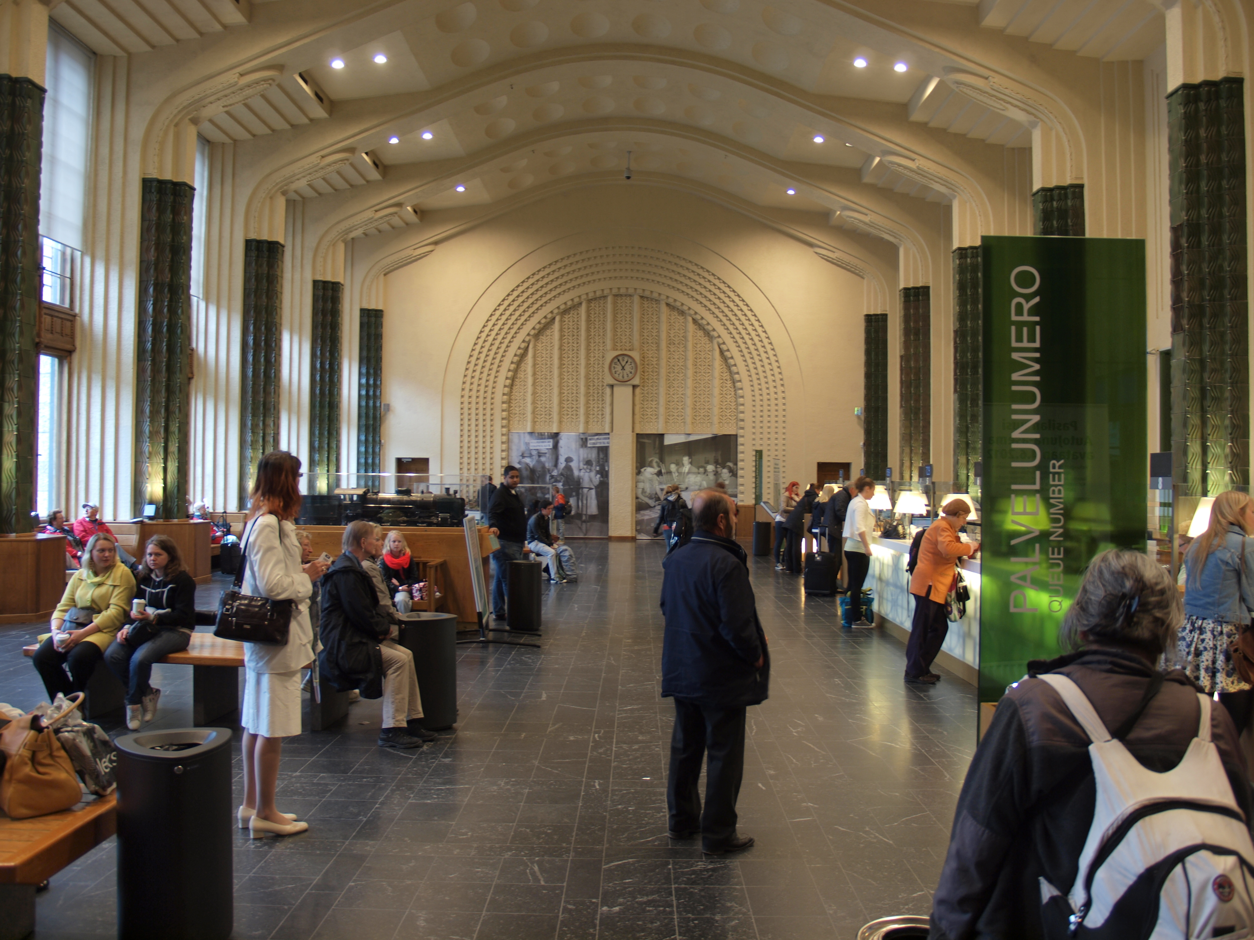 The ticket hall of the Helsinki Central railway station.